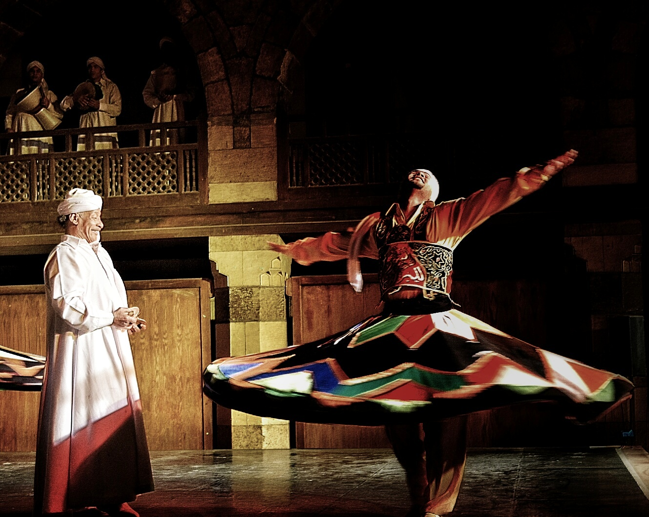 Sufi whirling (When they touch your soul by their amazing art). This is an image from Egypt